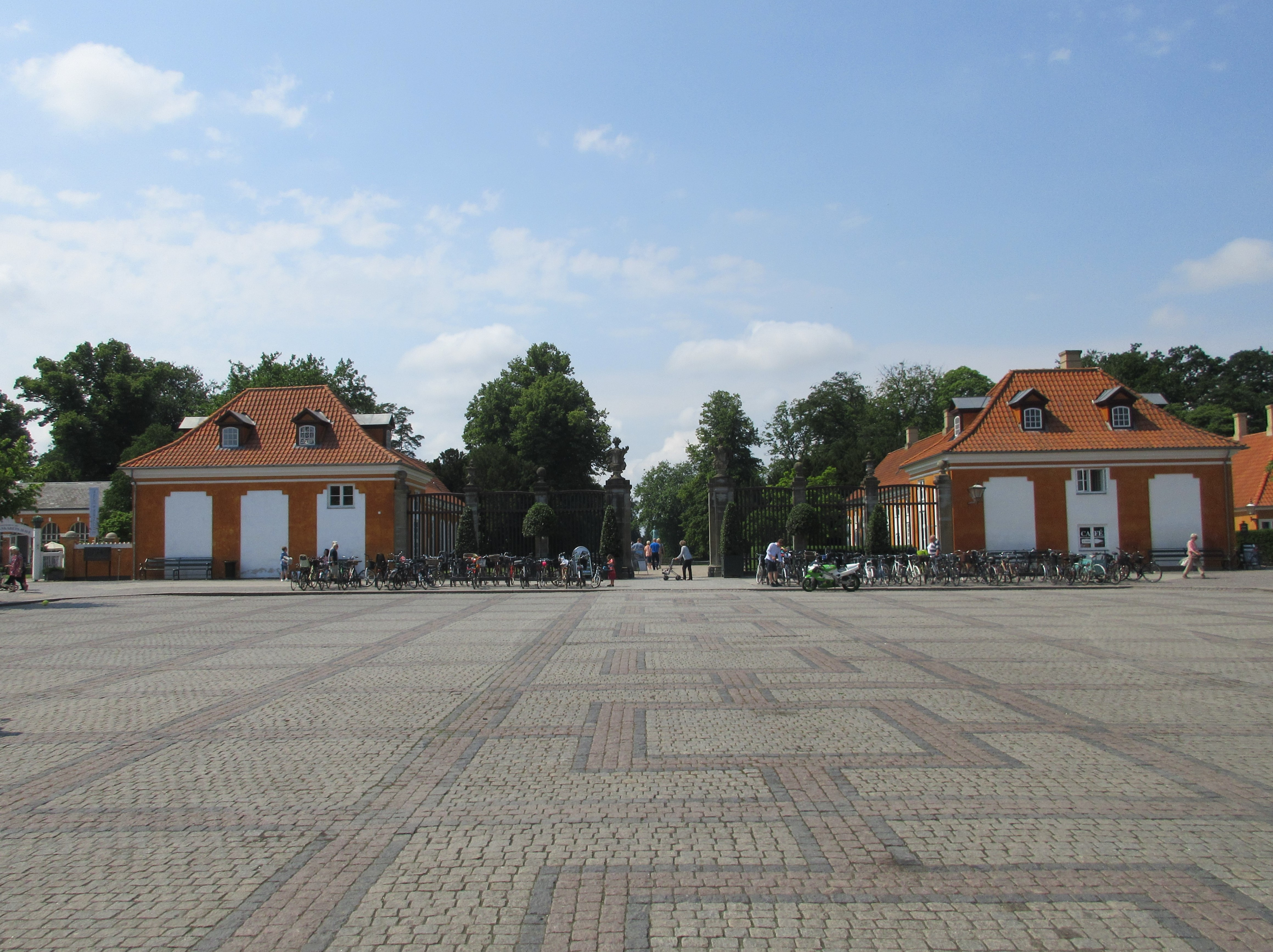 The entrance to Frederiksberg Have in Copenahgen, Denmark